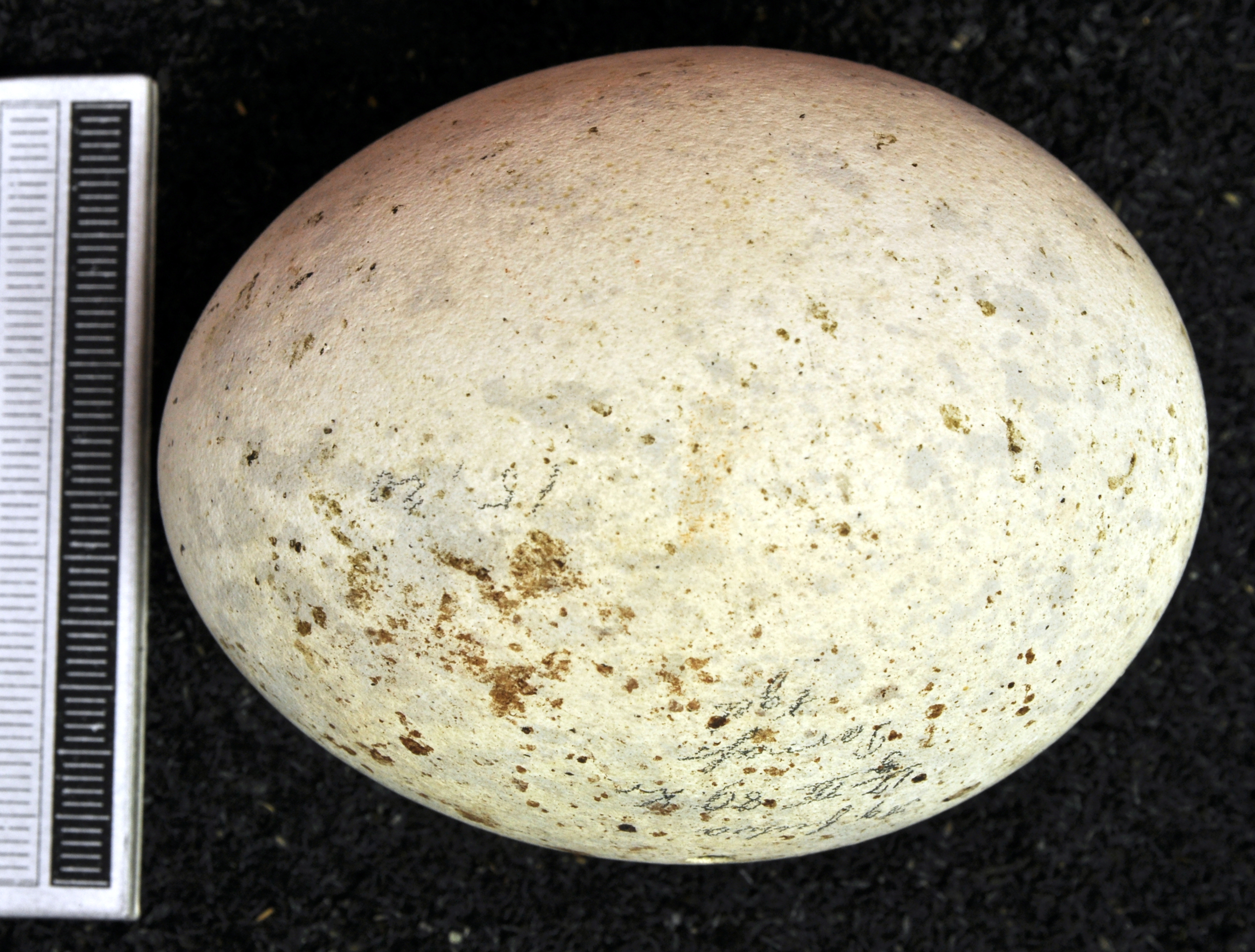 Golden eagle Aquila chrysaetos , egg, Coll. Museum Wiesbaden